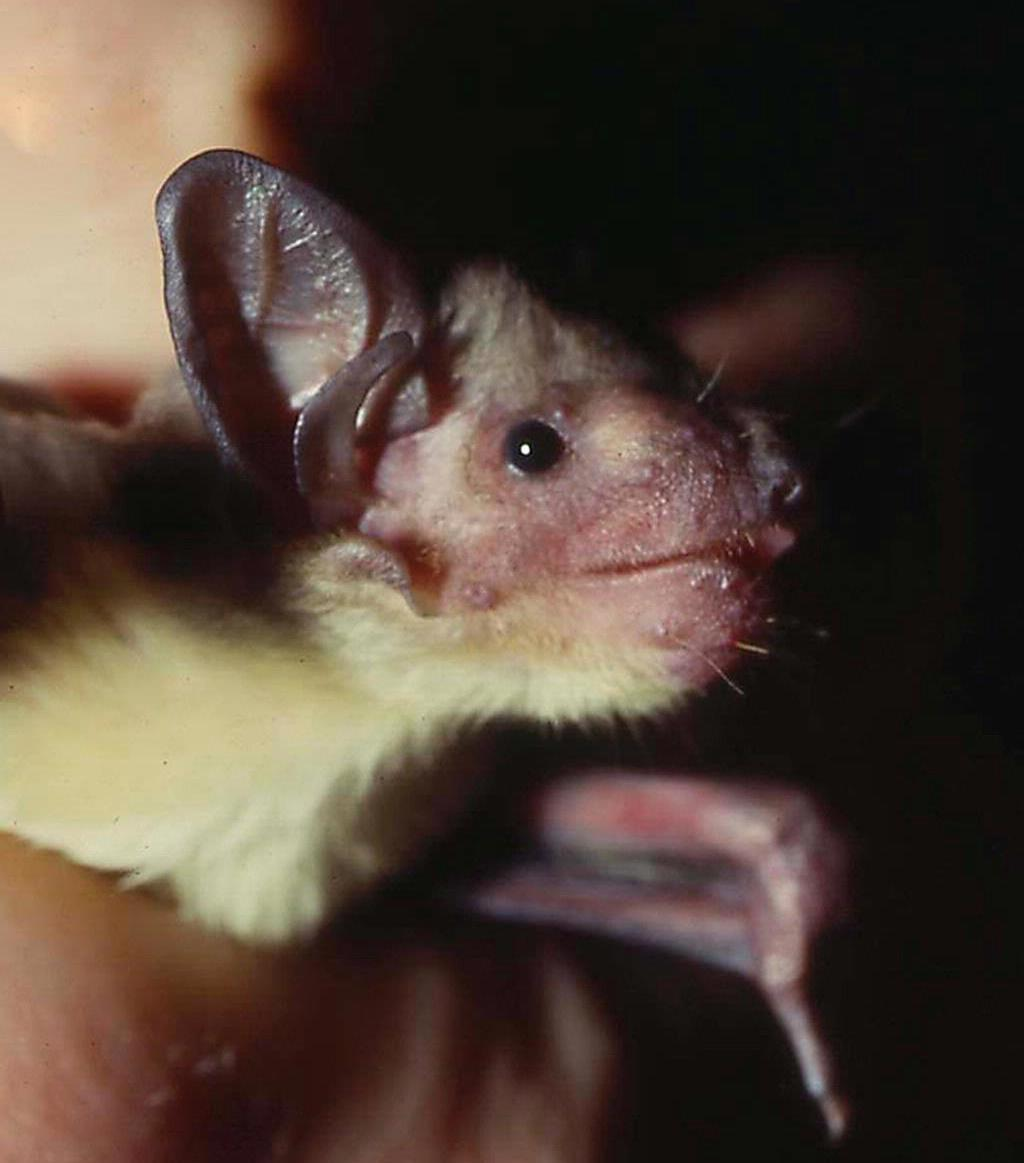 Yellow bat, Scotophilus, possibly Scotophilus dinganii Original description: lesser yellow bat, Scotophilus borbonicus (E. Geoffroy, 1803); image taken near Limpopo River, South Africa.